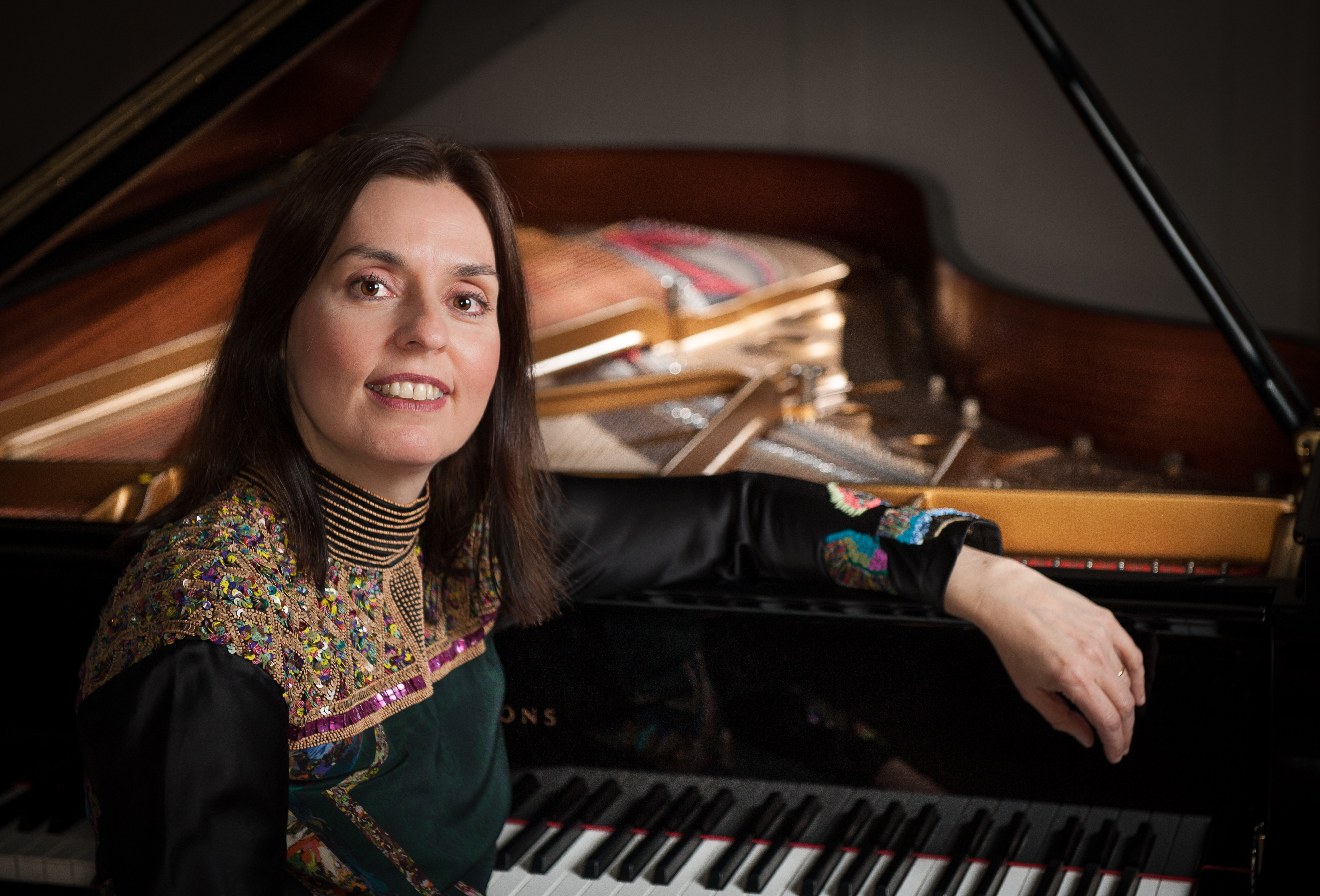 Clelia Iruzun Photograph